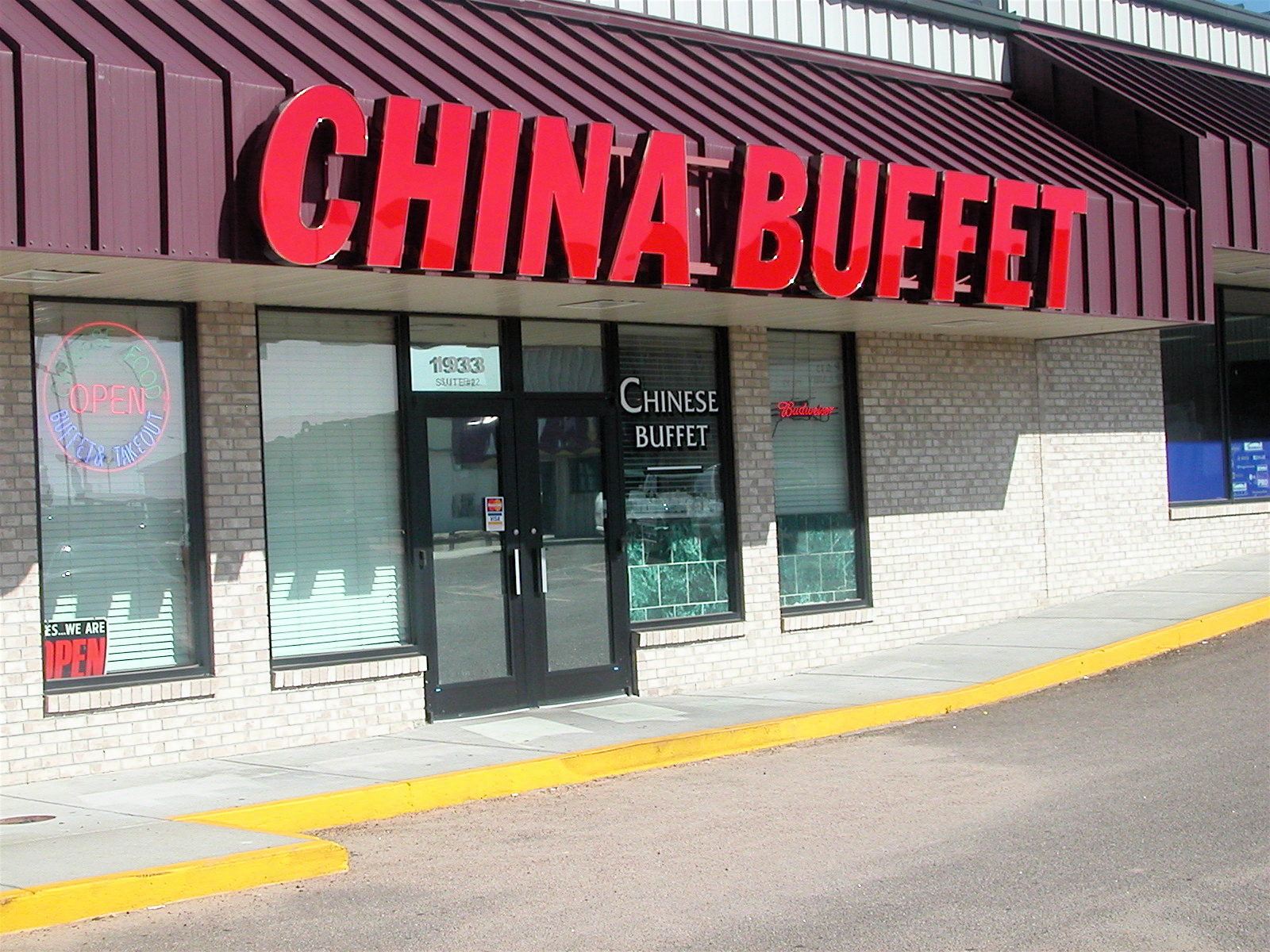 Chinese Buffet that appeared, as if by magic, the second that Lyndi said, "Chinese."